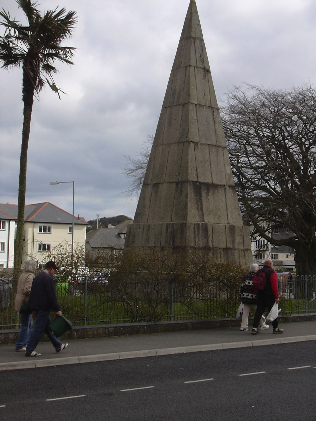 Killigrew monument in Arwenack Street, Falmouth, Cornwall, UK